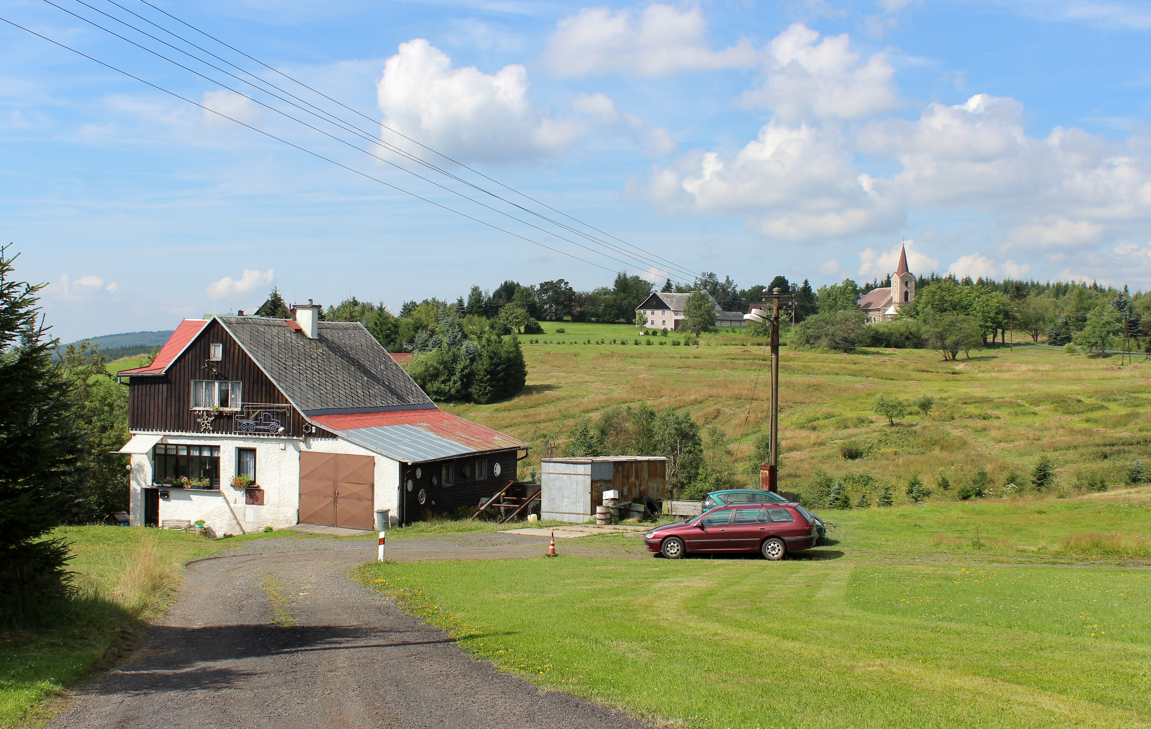 East view of Horní Halže, part of Měděnec, Czech Republic